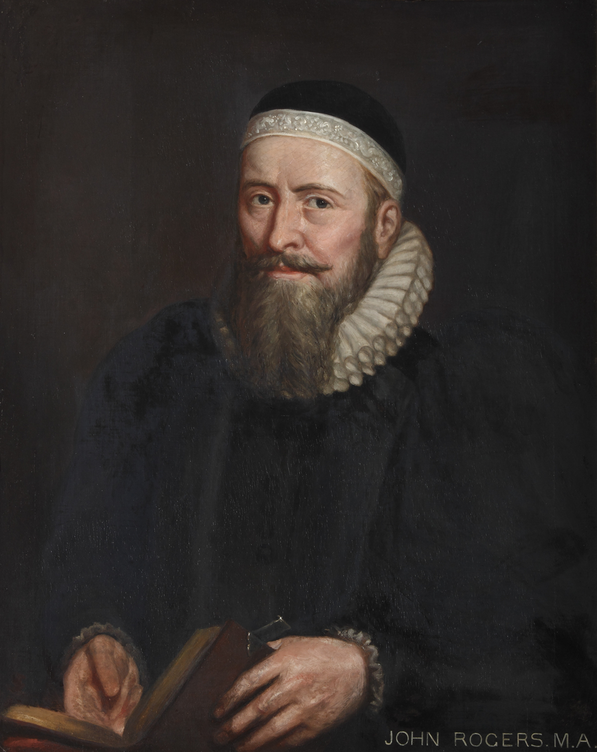 Depicted person: John Rogers (Bible editor and martyr)